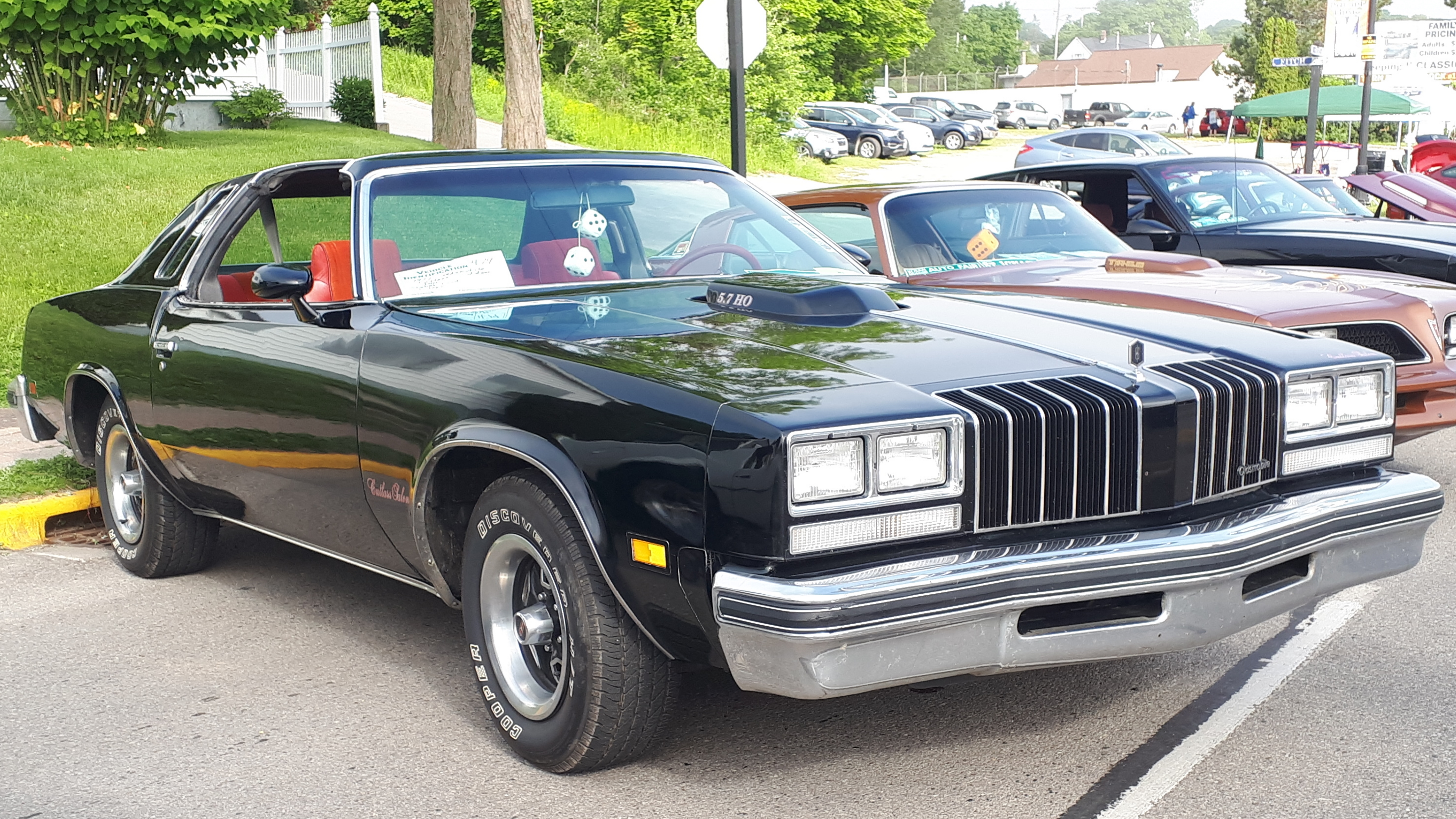 1977 Oldsmobile Cutlass Salon photographed in St. Ignace, Michigan at the annual St. Ignace car show weekend.